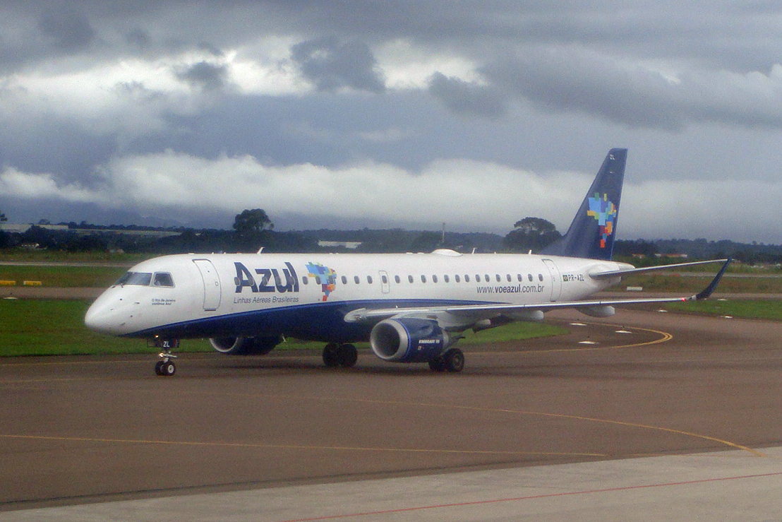 Embraer jet from Azul Linhas Aereas Brasileiras at Curitiba International Airport (CWB), Brazil